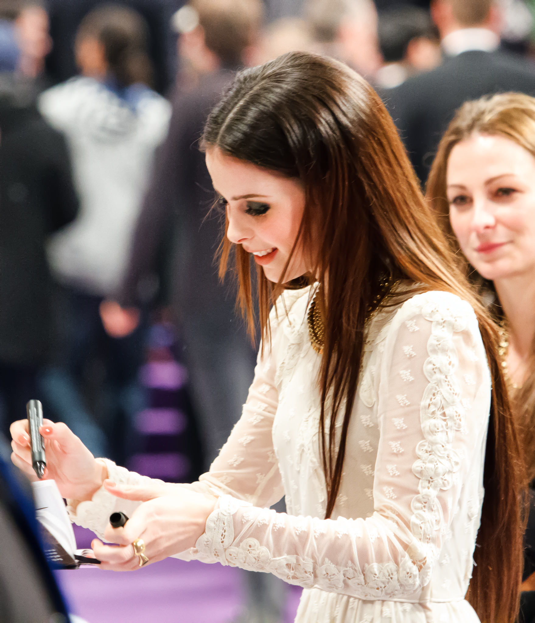 Lena Meyer-Landrut at the Echo music award 2013